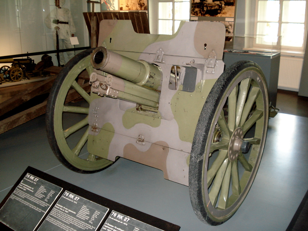 Soviet 76.2 mm regimental gun M1927, displayed in Hämeenlinna Artillery Museum. Photo taken on June 18, 2006. Source: Photo by me, User:Balcer.